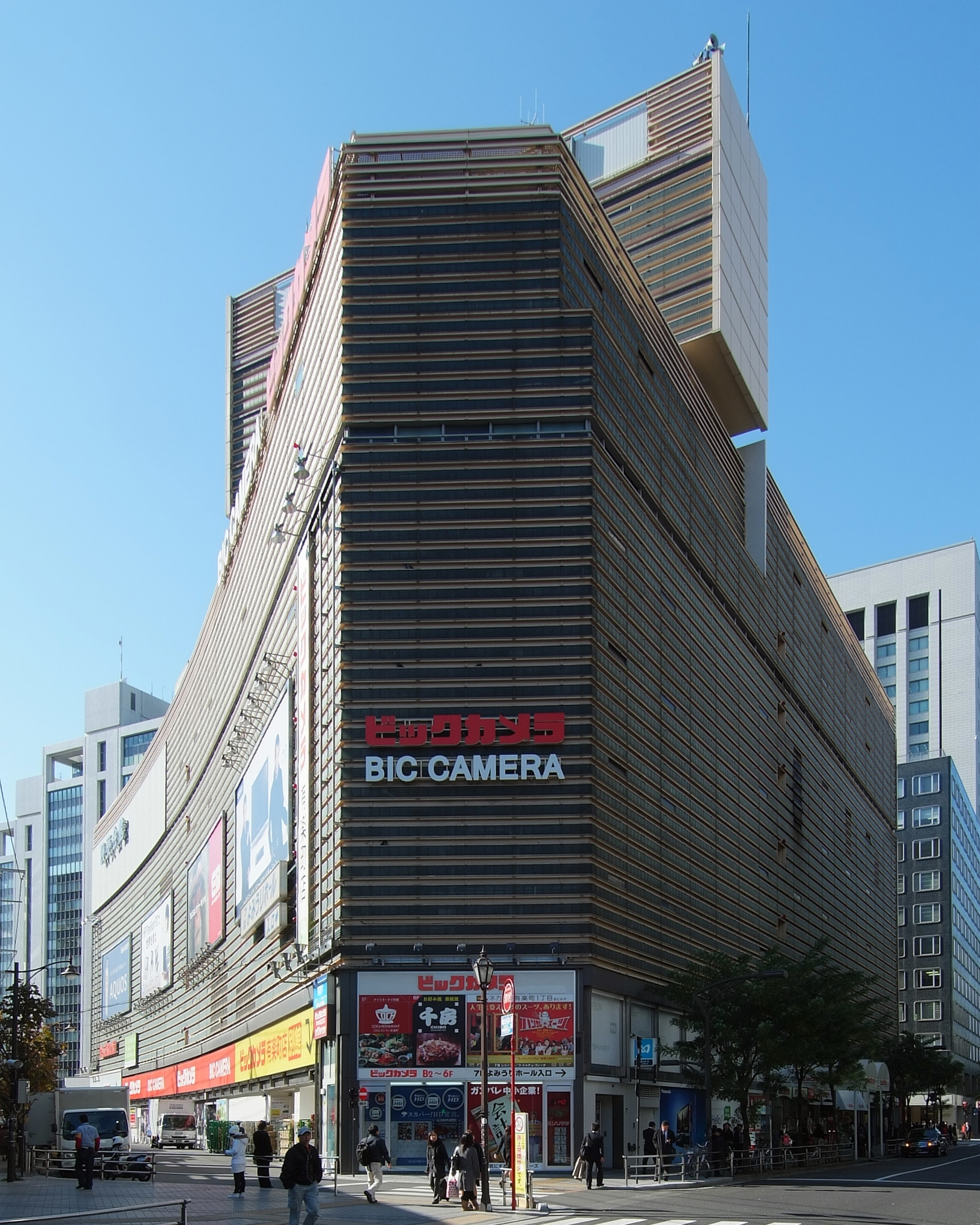 Yomiuri Hall, at Yurakucho Tokyo Japan, design by Togo Murano in 1957.